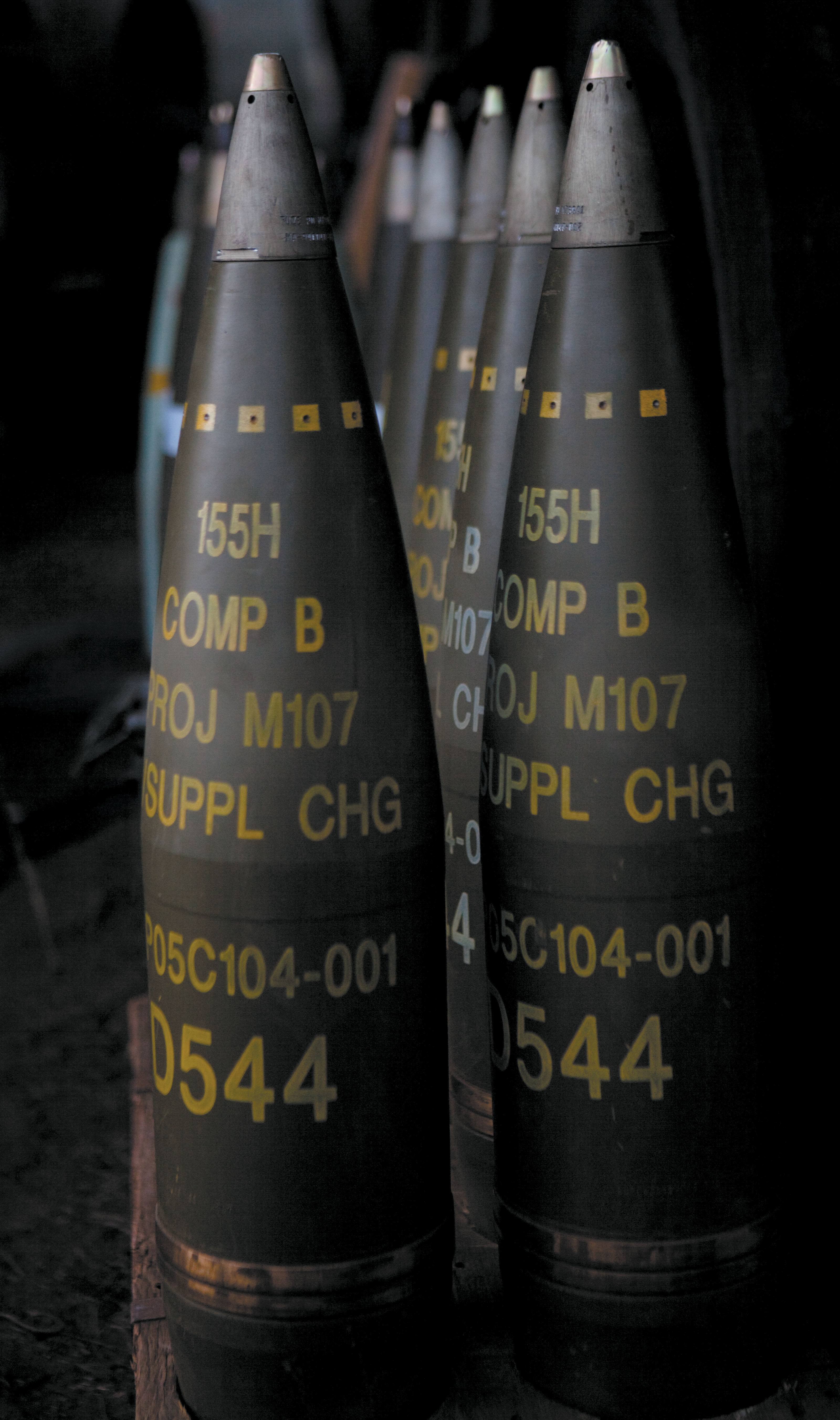 Rows of high explosive 155 mm shells sit, about to be fired, as a fire mission is in progress.